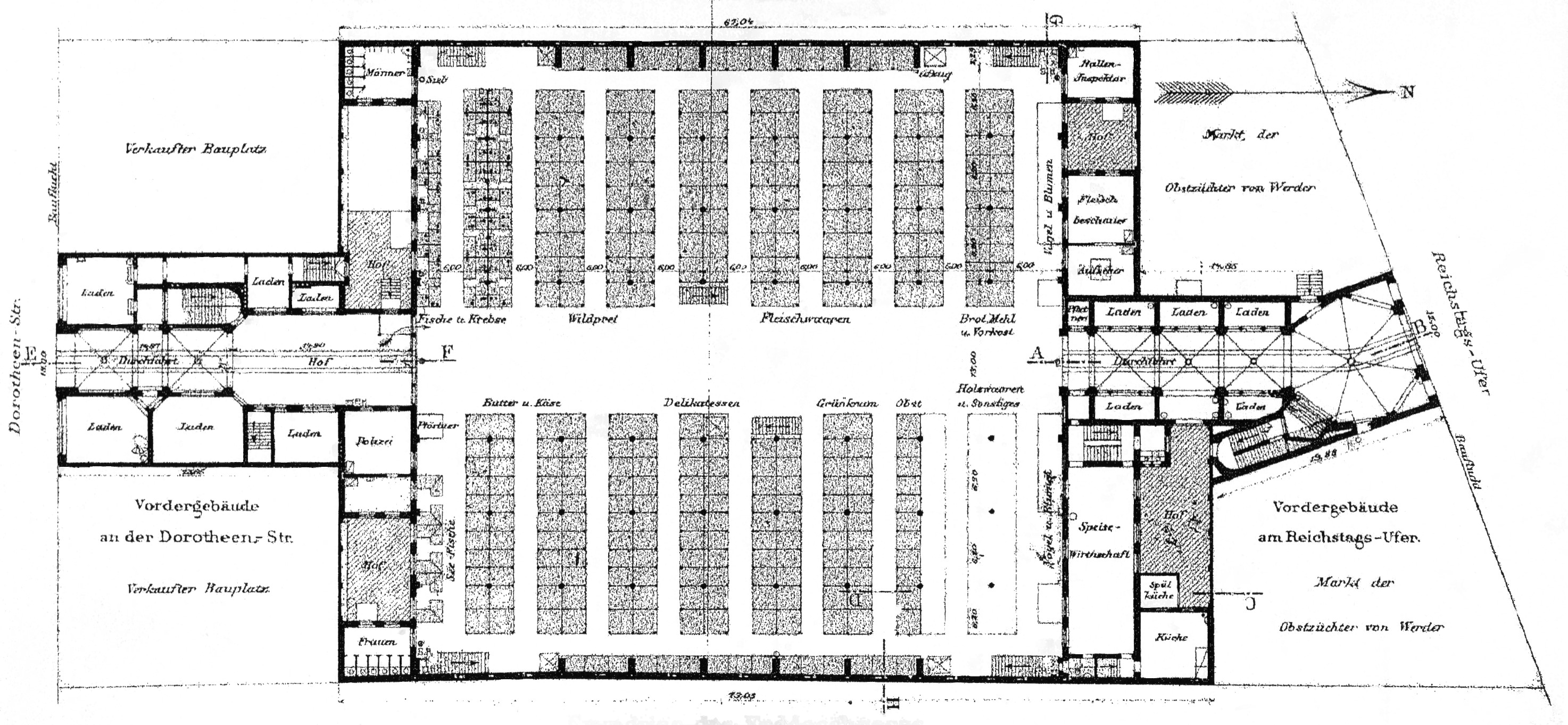 Berlin - market hall IV at Dorotheenstraße 29, plan